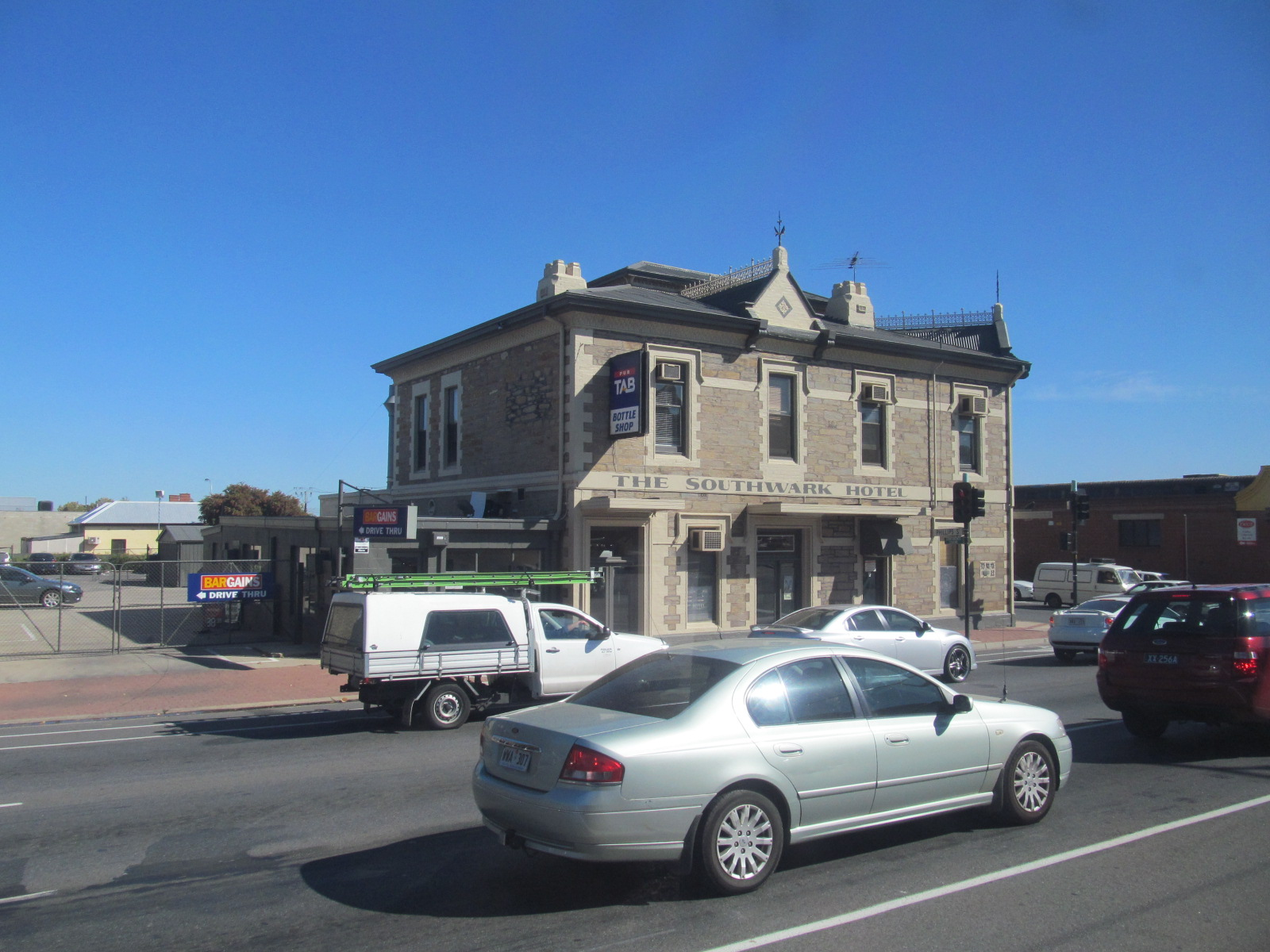 Southwark Hotel, Port Road, Thebarton, Adelaide.